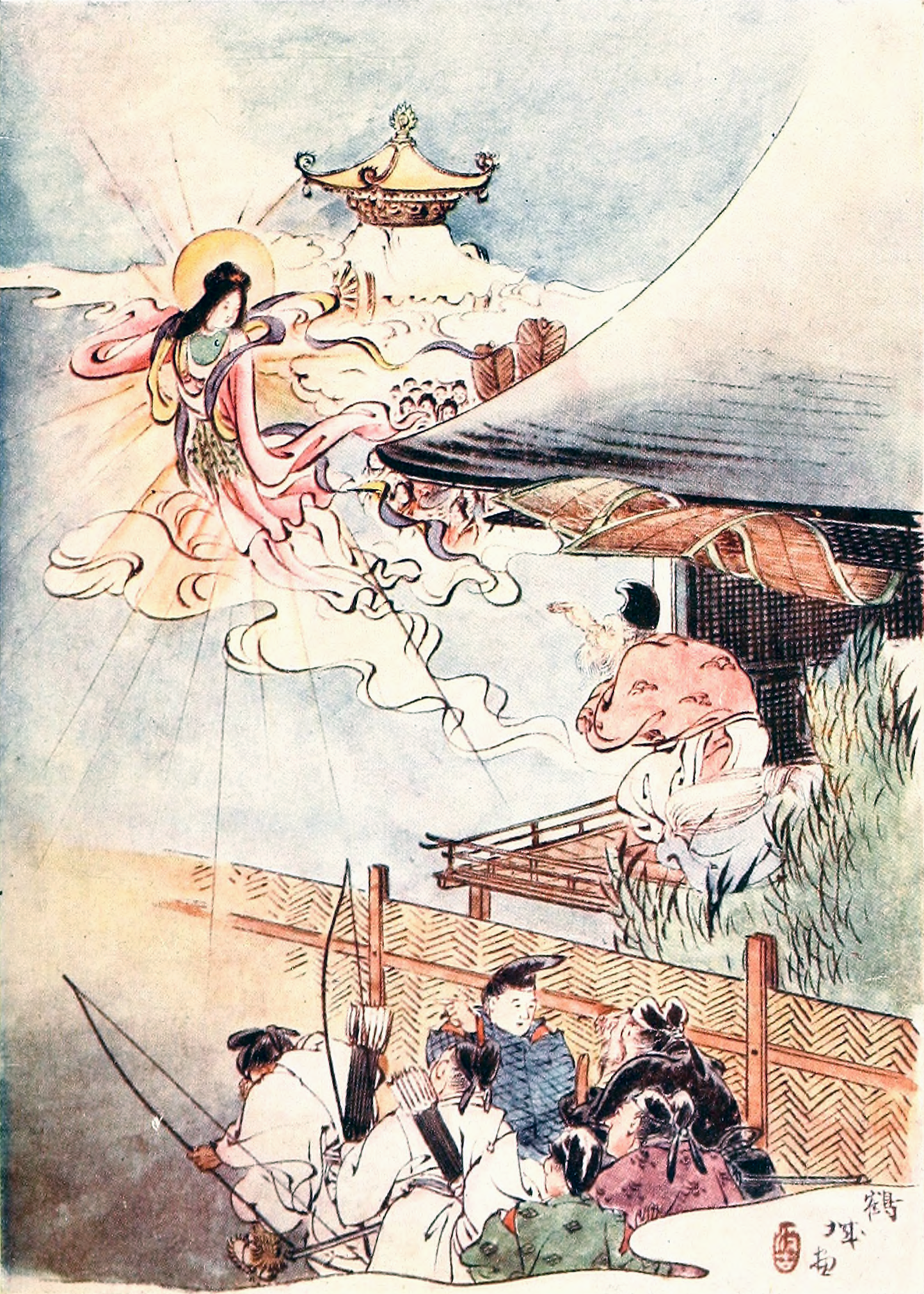 Image from The Japanese Fairy Book